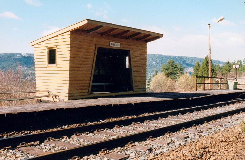 Trykkerud train stop, Bratsbergbanen, Telemark, Norway